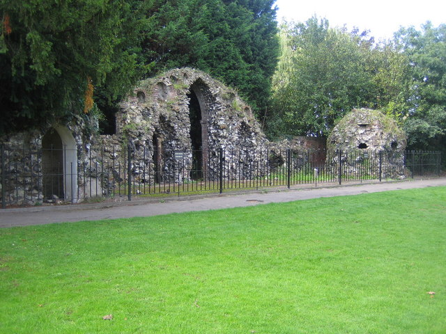 Cheshunt: Theobalds These walls and entranceways are one of the few ruins left of the former Theobalds Palace, built by William Cecil, Lord Burghley, in the 1560s. Queen Elizabeth I was a frequent visitor to the Palace. She was succeeded by King James I who stayed at Theobalds in 1603 as a guest of Lord Burghley's son, Robert Cecil, while on his way from Scotland to be crowned in London. King James was so taken with Theobalds that he exchanged it with the Cecils for Hatfield House in 1607. King James I died at Theobalds in 1625, and it remained a royal palace during the reign of King Charles I. However after the accession of Oliver Cromwell and the execution of Charles in 1649, Theobalds was razed to the ground by the Parliamentarians. Today the remains can be found in Cedars Park.